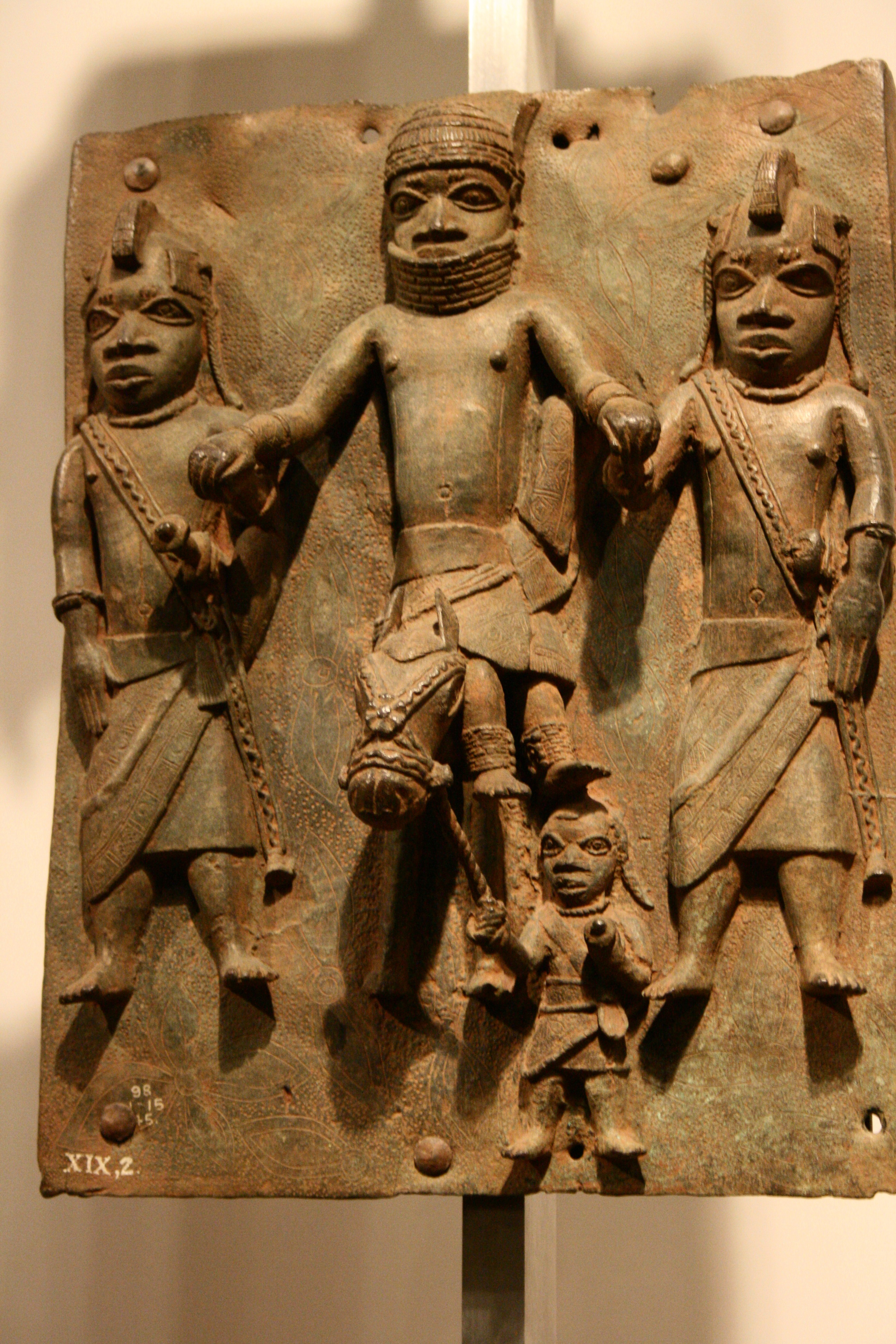 Brass plaque commonly known as "bronze". Benin kingdom (Nigeria). British Museum (London)